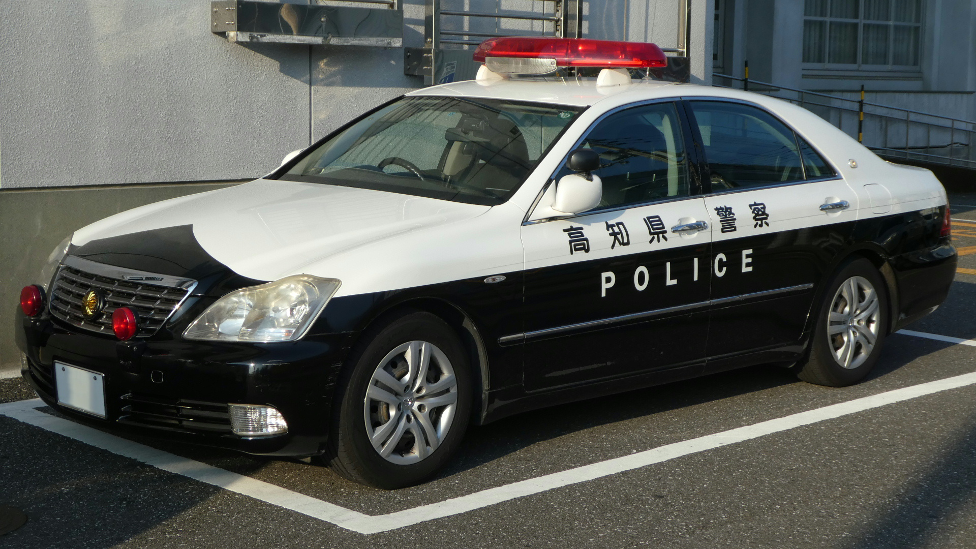 Vehicle of Kochi Prefectural Police. Brand by Toyota